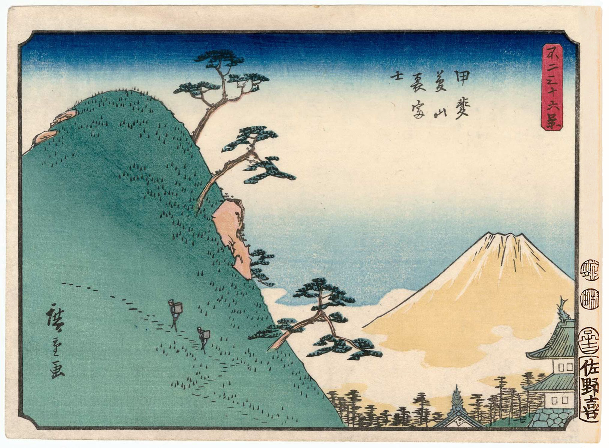 Back View of Mt.Fuji from Dream Mountain in Kai Province (Japanese: 甲斐夢山裏富士, Kai yumeyama urafuji). No. 33[1] (or No. 6[2]) in the series Thirty-six Views of Mount Fuji (first version).